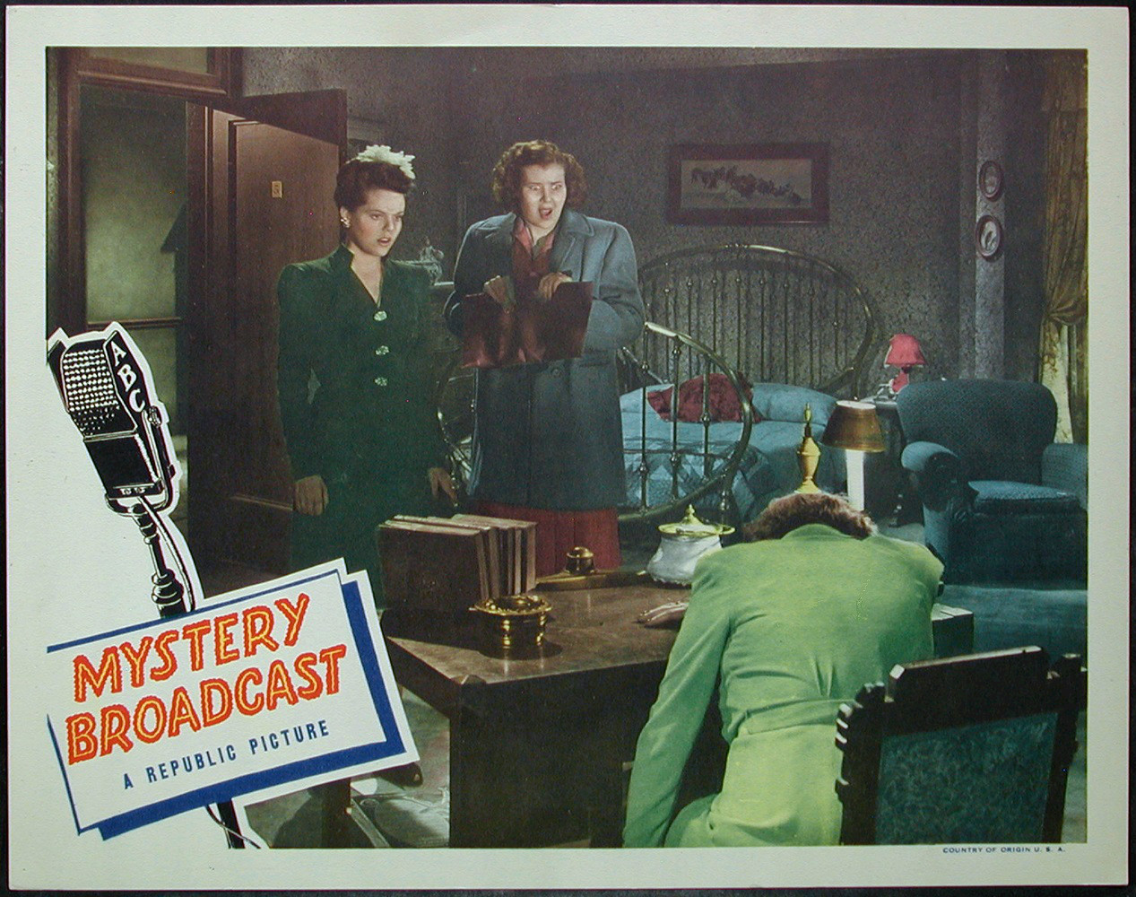 Lobby card from the American mystery film Mystery Broadcast (1943).